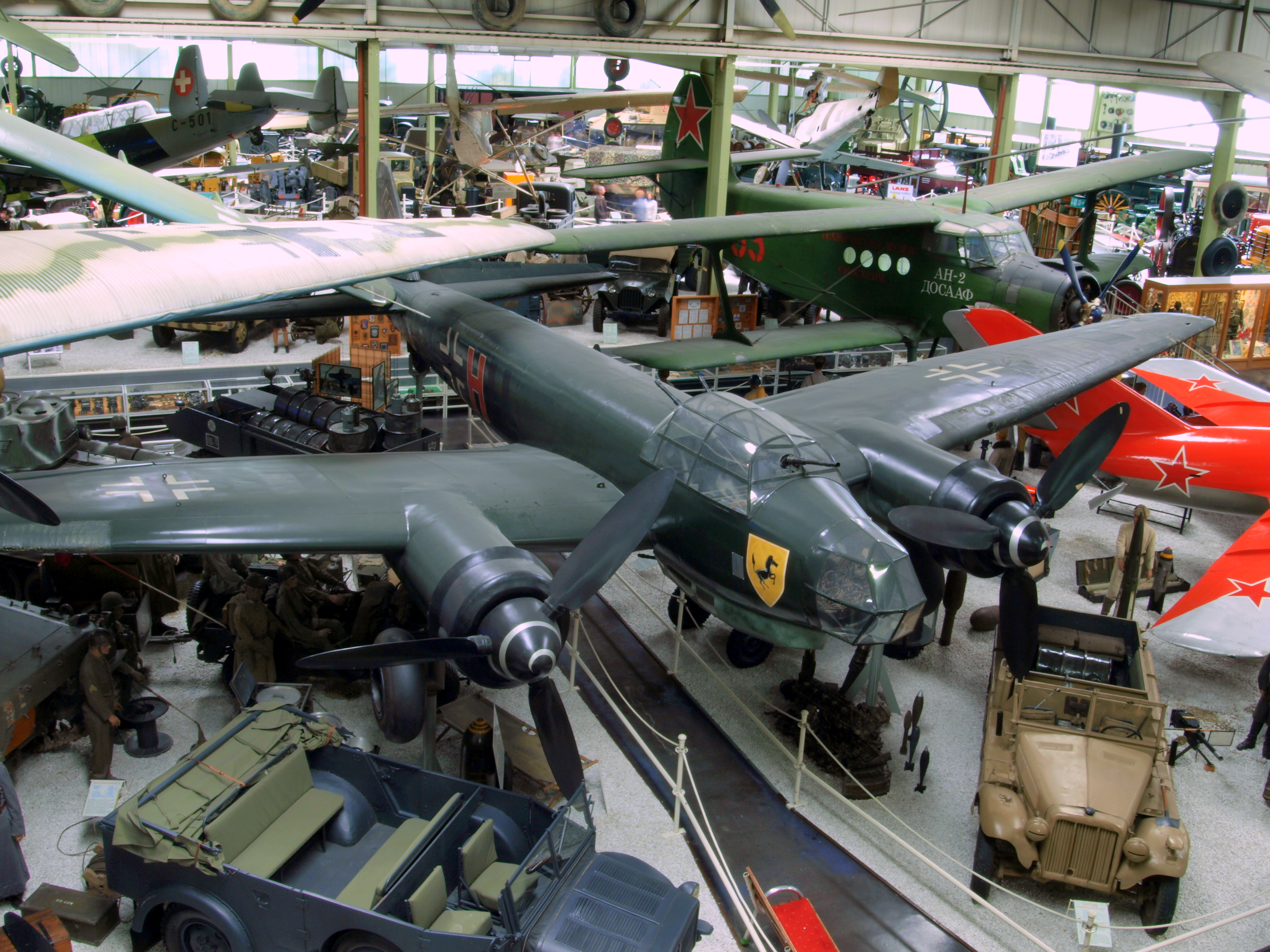 Photographed at the Auto & Technic museum Sinsheim.